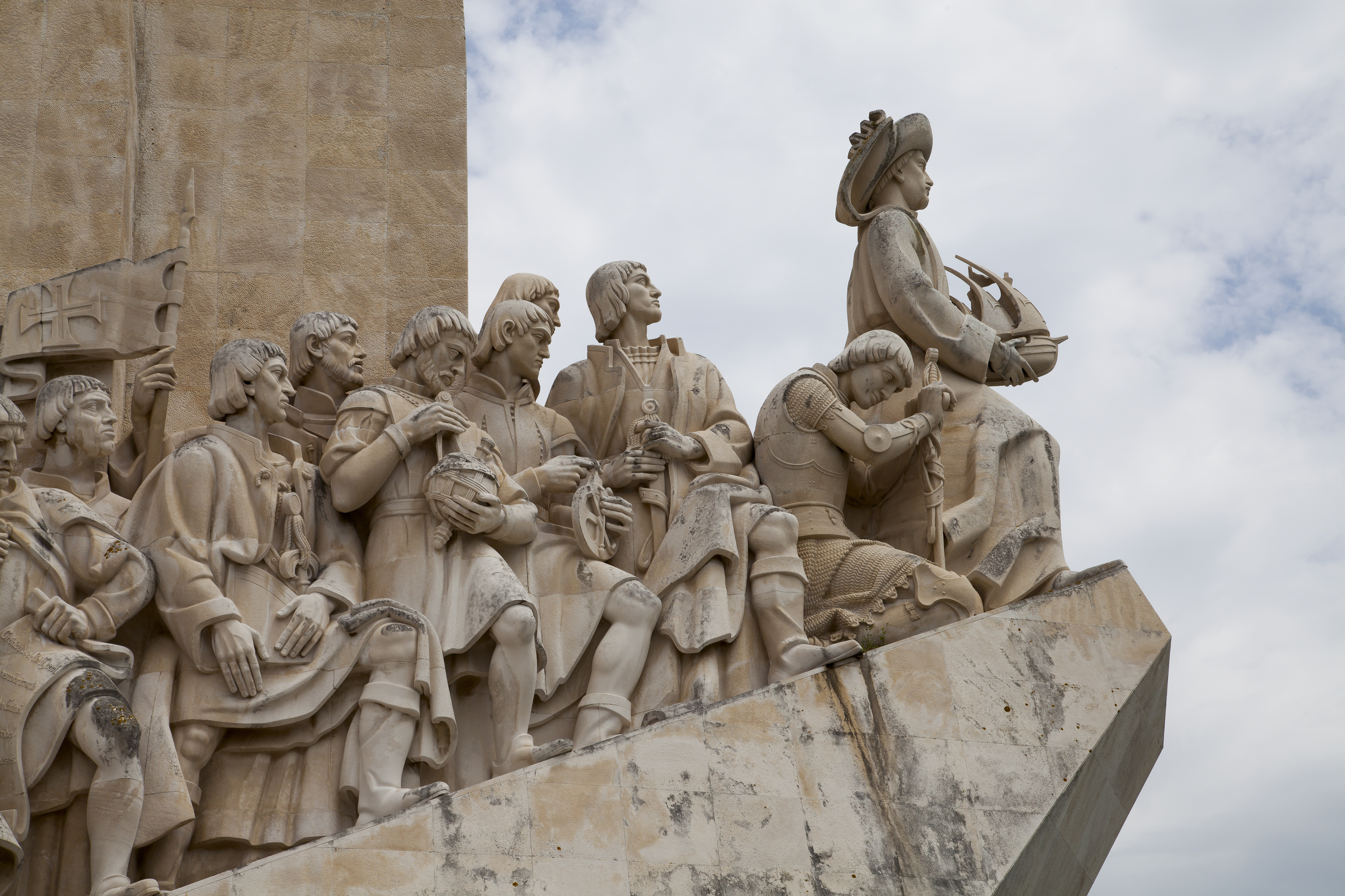 Monument to the Discoveries in Belém (Lisbon), Portugal